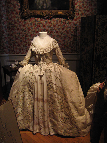 Lyon in France - museum